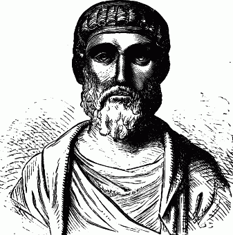 Julian